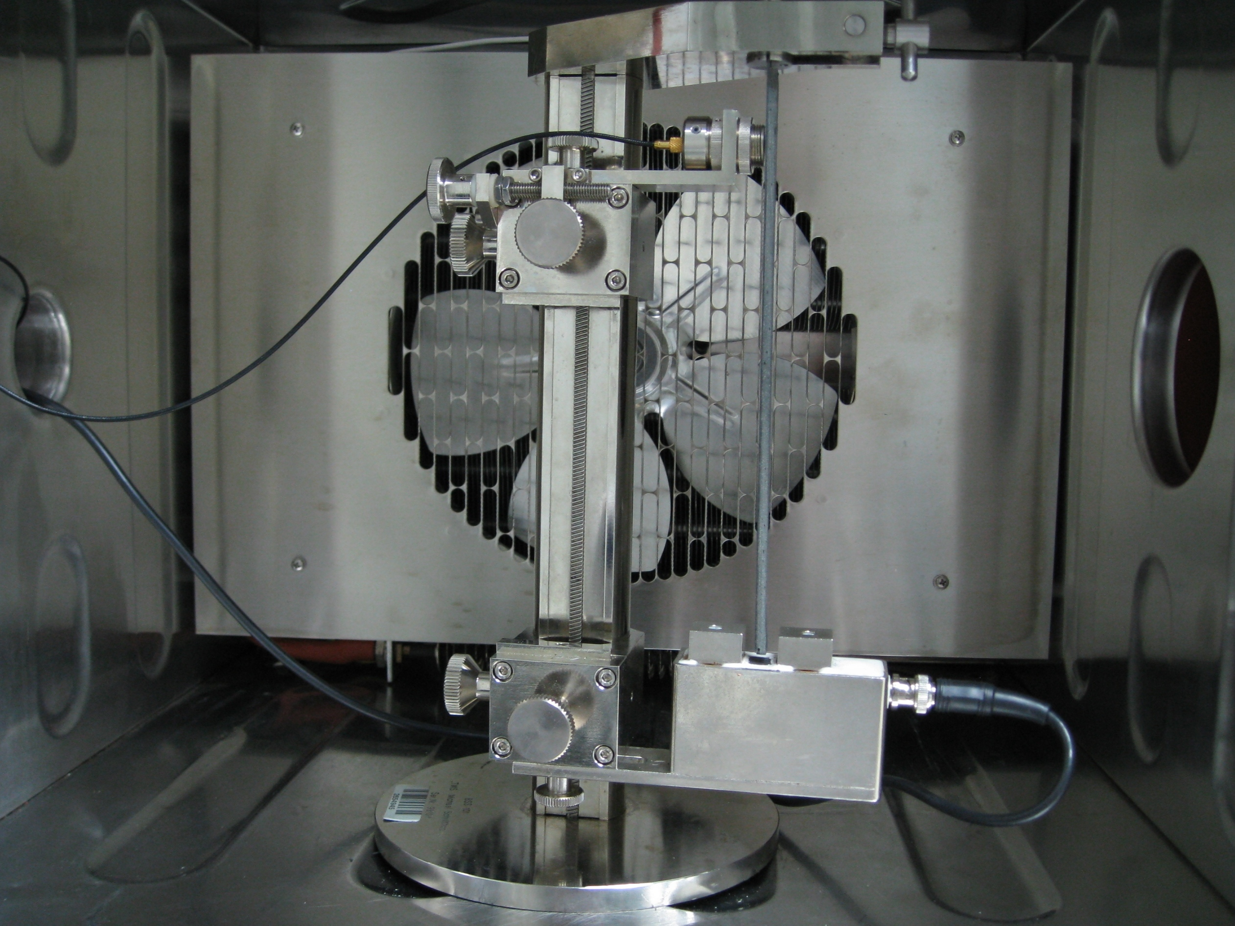 "Oberst Apparatus" (Brüel & Kjær brand) for measuring an Oberst beam placed in an environmental chamber.